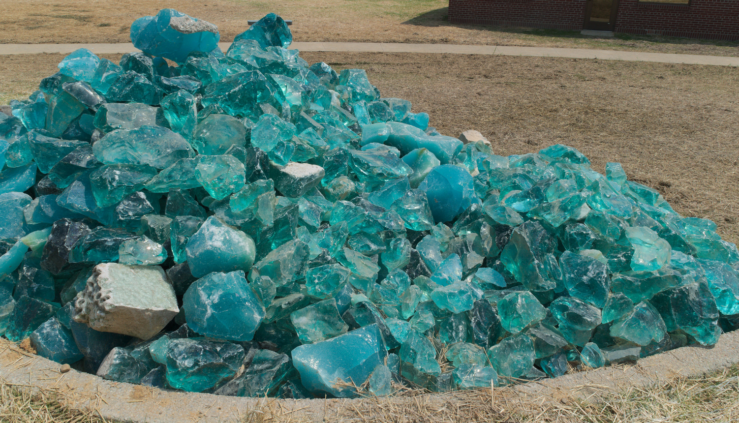 An art installation at the Ariel-Foundation Park in Mount Vernon, Ohio. This is a pile of glass stones with heavy Iron(II) oxide impurities.